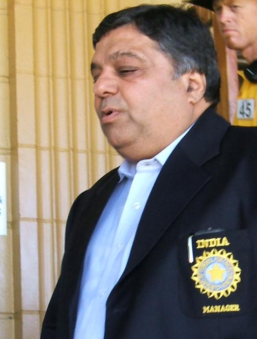 Indian cricket manager at Adelaide Oval